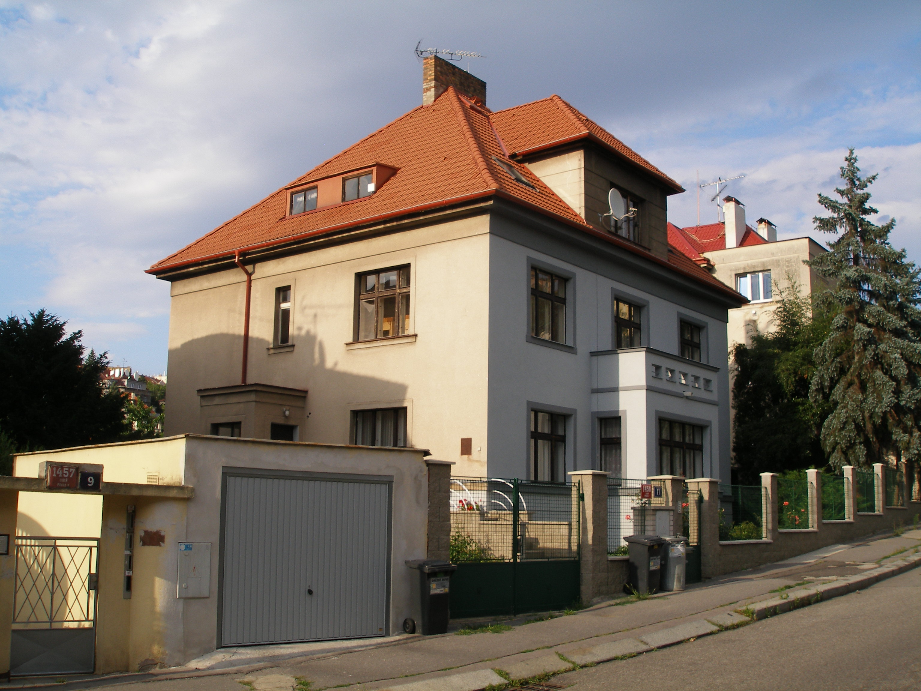 Prague Na Truhlářce 1456/11